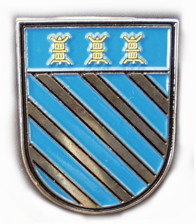 Staff & HQ Comapny 1st Logistic Brigade